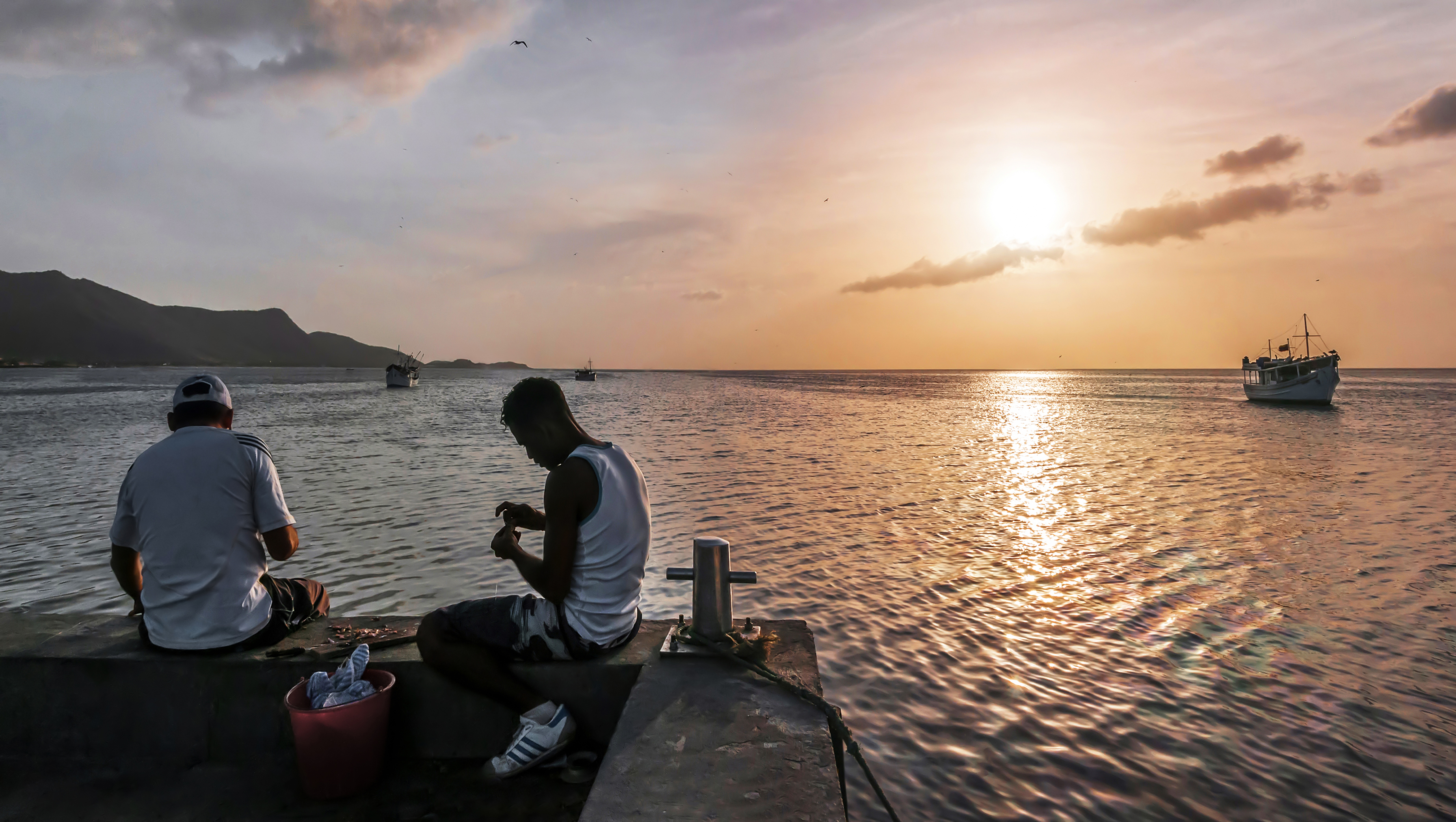 Fishermen on Pier Juan Griego, Isla de Margarita, Venezuela.